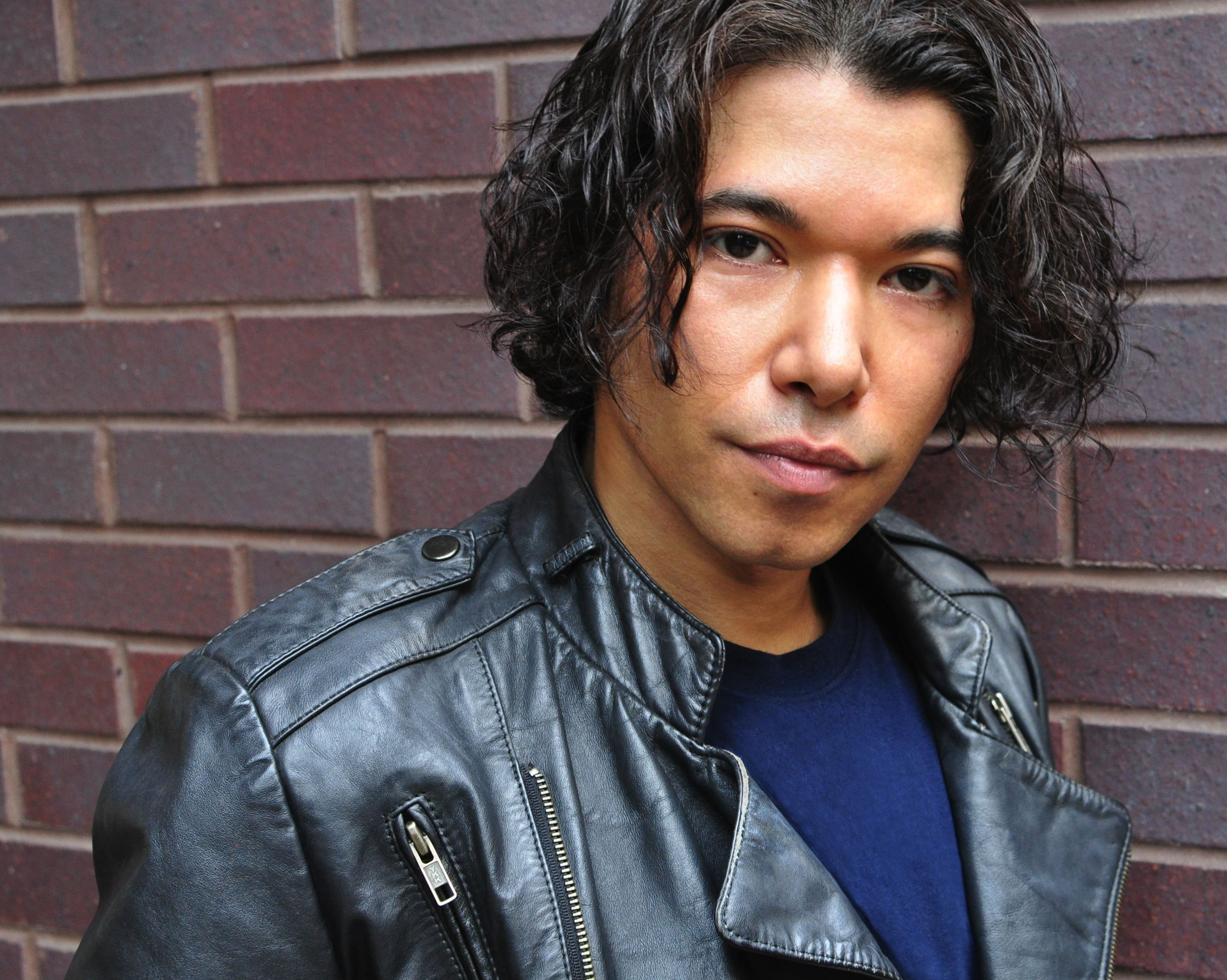 Actor Renoly Santiago in a blue T-shirt and leather jacket in the UES in NYC, mid 2011 in front of a brick wall.